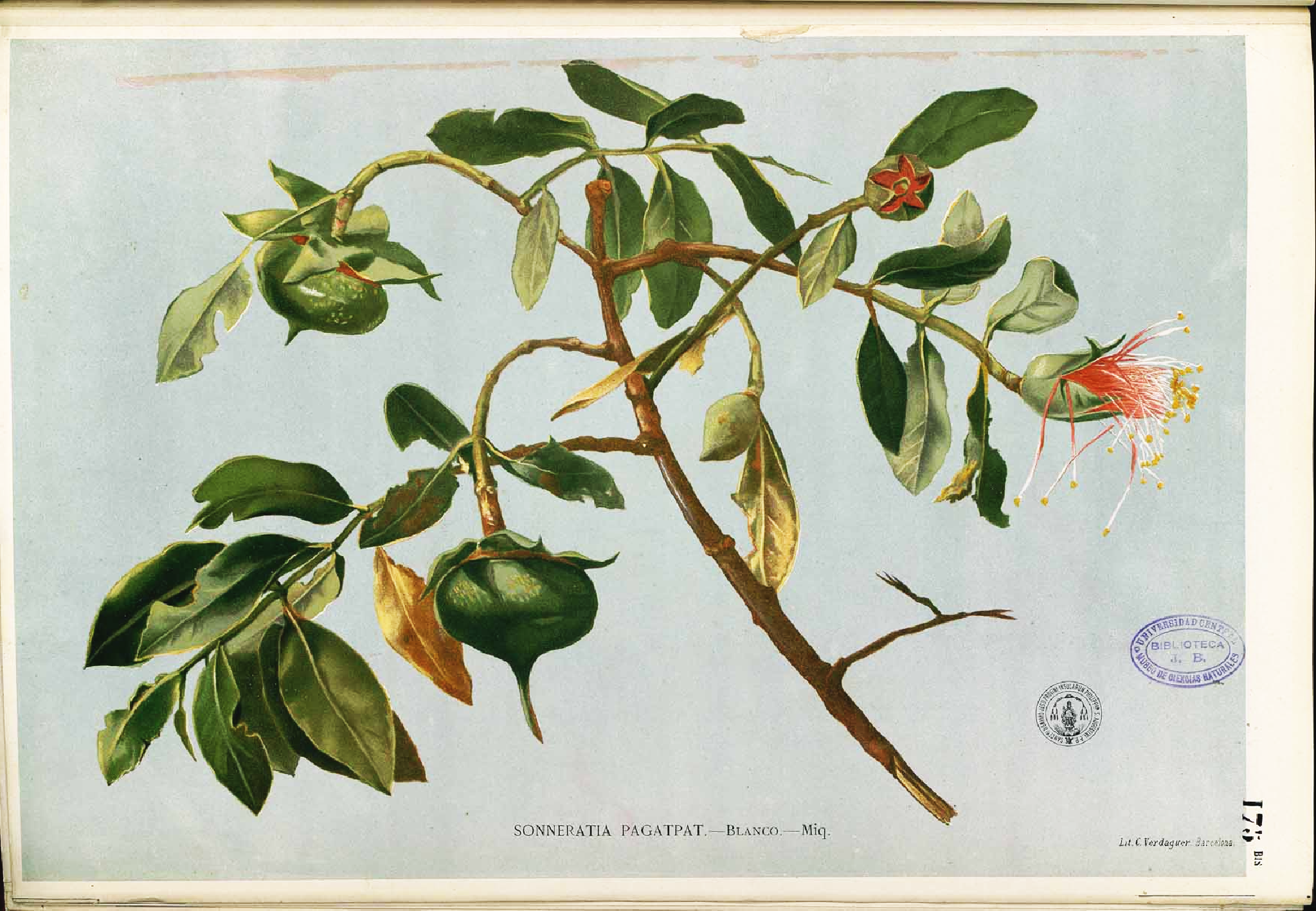 Plate from book, Sonneratia